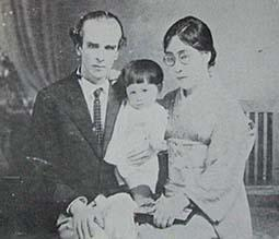 Nikolai Aleksandrovich Nevsky (1892-1937) and his wife Iso (Isoko) Matani-Nevsky (萬谷イソ, 萬谷磯子, 1901-1937), and their daughter Yelena. Photograph taken in Japan, c. 1929.